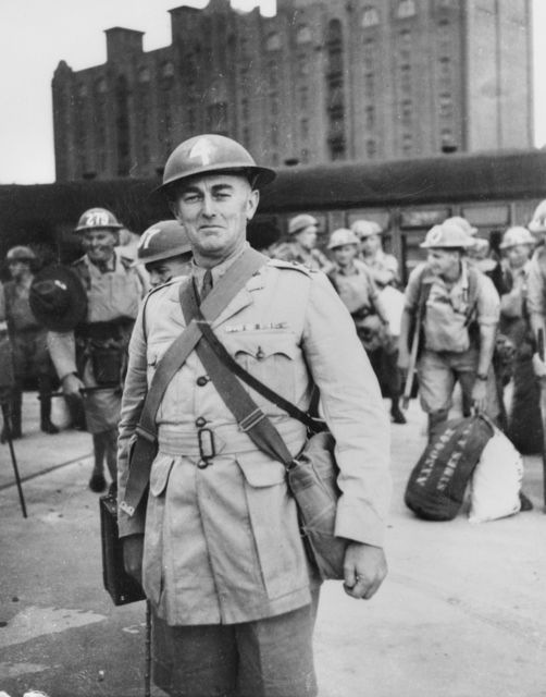 LIEUTENANT COLONEL A. L. VARLEY, OFFICER COMMANDING 2/18TH INFANTRY BATTALION, WAITING TO BE FERRIED TO HIS ASSIGNED SHIP, WHICH WILL TRANSPORT HIM AND HIS TROOPS TO MALAYA. SYDNEY, NSW. 5 FEBRUARY 1941.